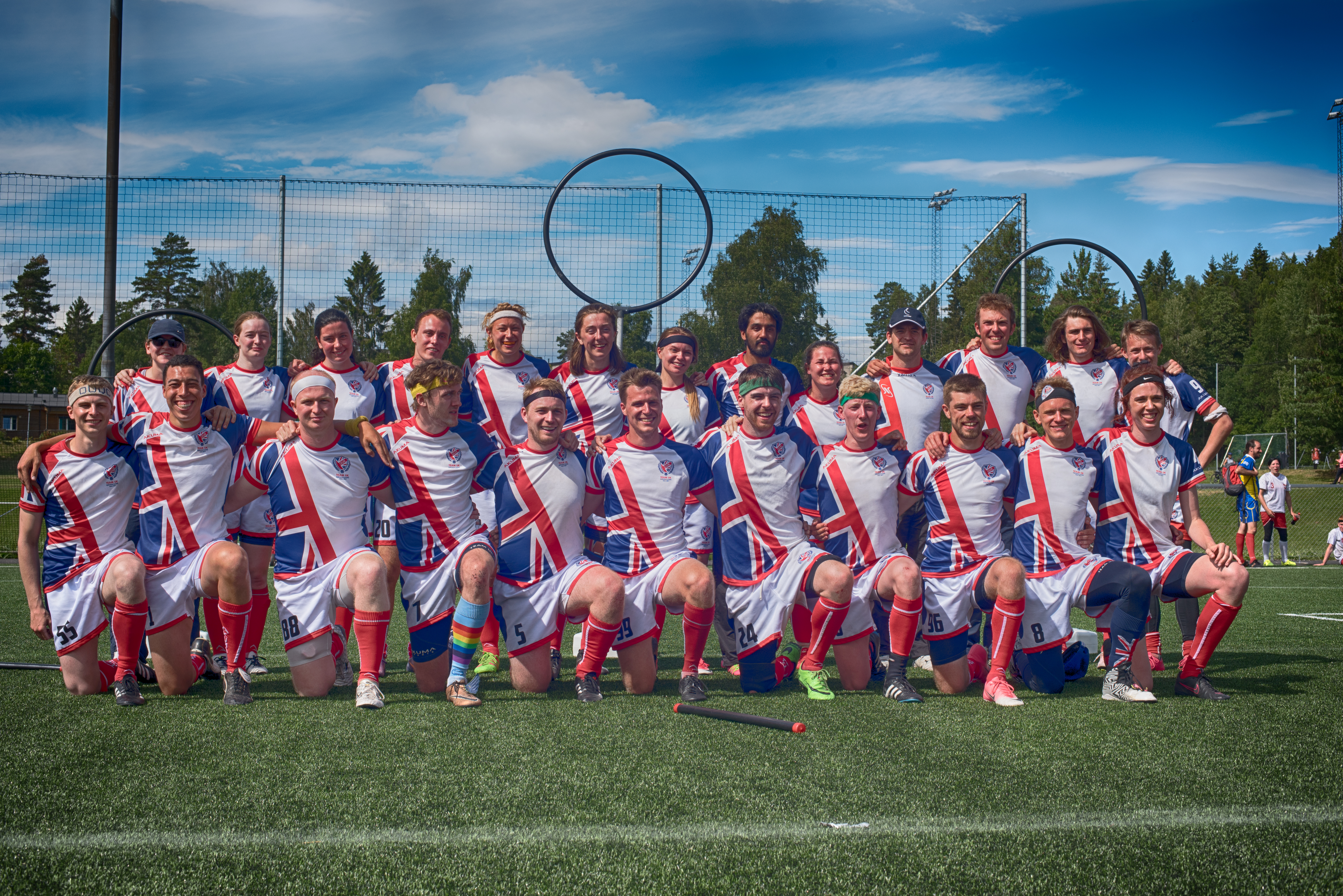 The UK national Quidditch team, winners of the 2017 European Games in Oslo, Norway